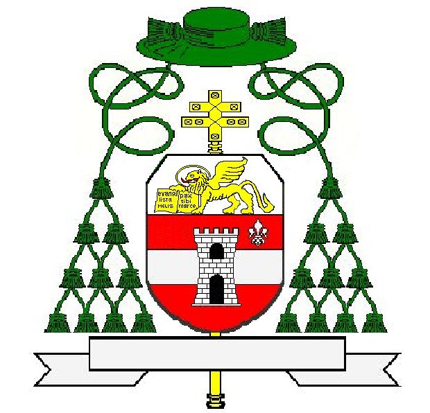 My own drawing. The personal secretary of Pope John XXIII adopted, following a centuries-old tradition, the arms of his master. There are two differences; the Lion of Saint Marc in the chief is the lion that was used by Roncalli as a patriarch of Venice. To differentiate between the two coats of arms, they have to be unique, the fleur de lys dexter has been left out. The hat, tassels and archiepiscopal procession-cross are the insignia of Mgr. Capovilla's rank as an archbisshop (titular). Robert Prummel.